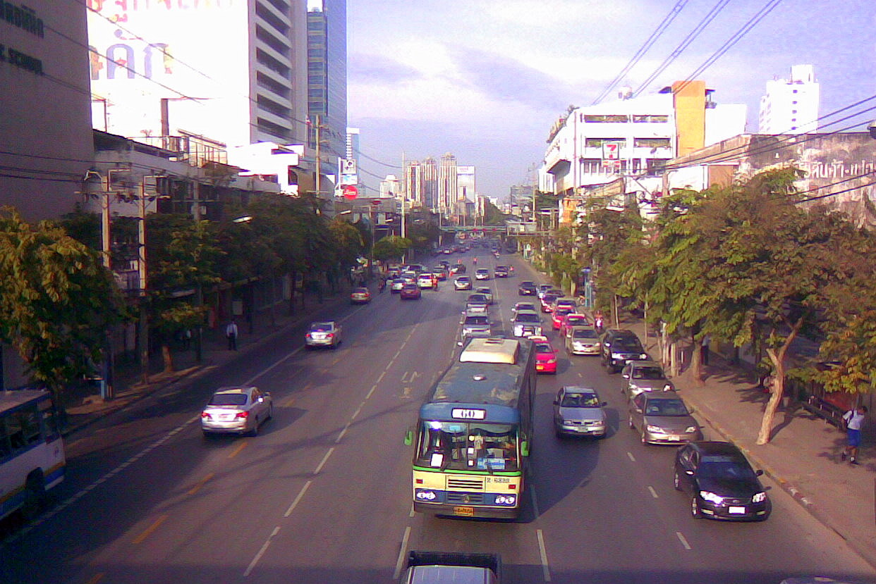 New Petchburi Road in the front of Saint Dominic School, looking west